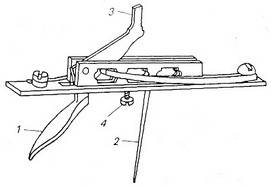 Schneller